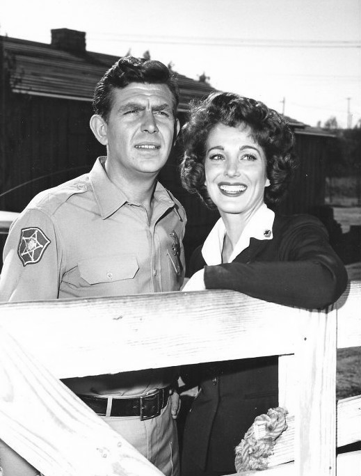 Photo of Andy Griffith and Julie Adams as the new county nurse from the television program The Andy Griffith Show.